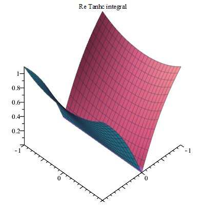 Tanhc integral Re 3D plot